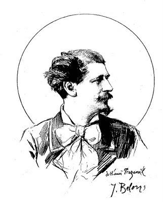 Portrait of Léon Épinette, aka Léo Trézenik (1855 † 1902), by José Belon (1861 † 1927).